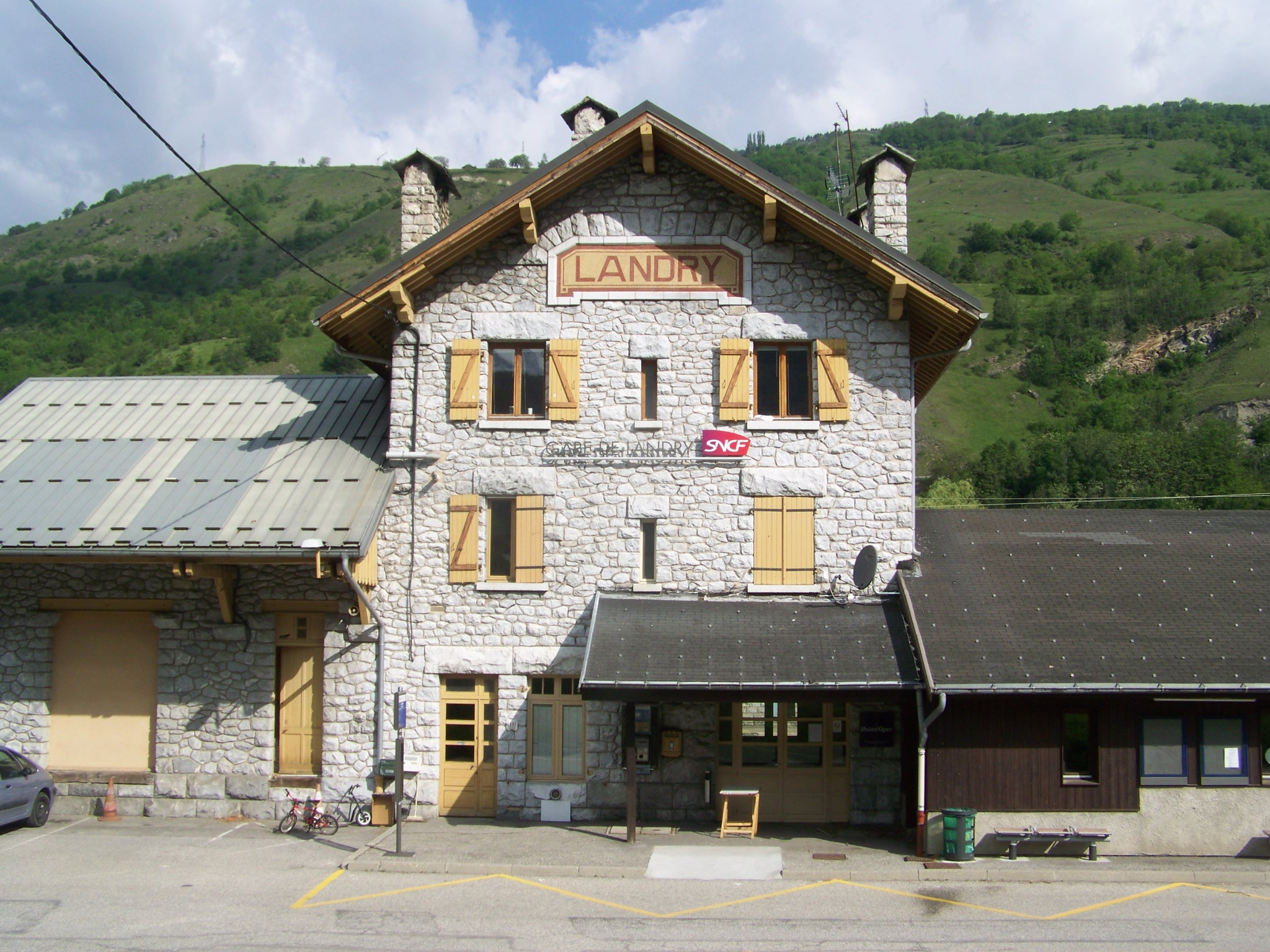 Front of Landry railway station, in Savoie, France.